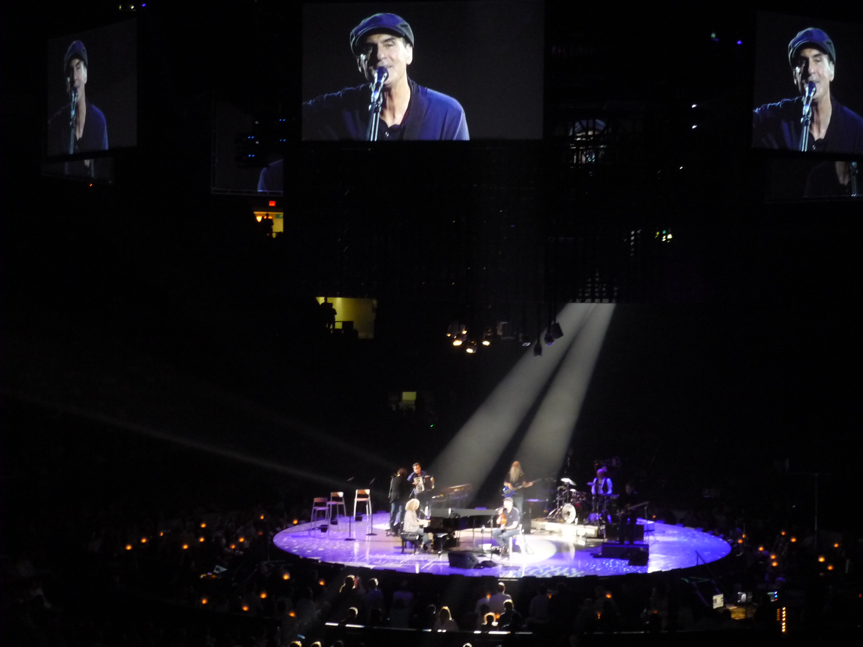 "Sweet Baby James" being performed by James Taylor, with Carol King on piano part of the band as on the original recording, during their Troubadour Reunion Show at Madison Square Garden in New York.